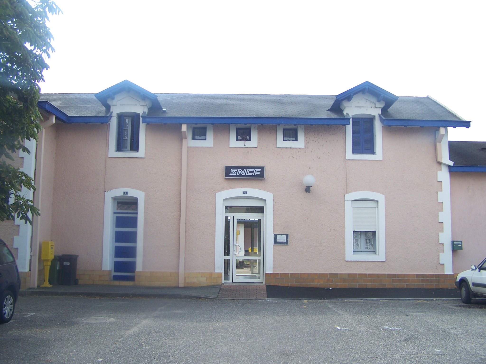 Building of Bassens train station, near Bordeaux in Gironde, France.